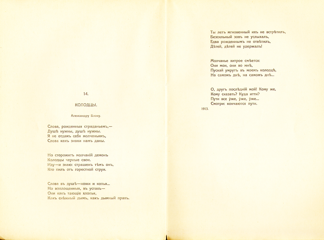 «The welles», a poem by Zinaida Gippius